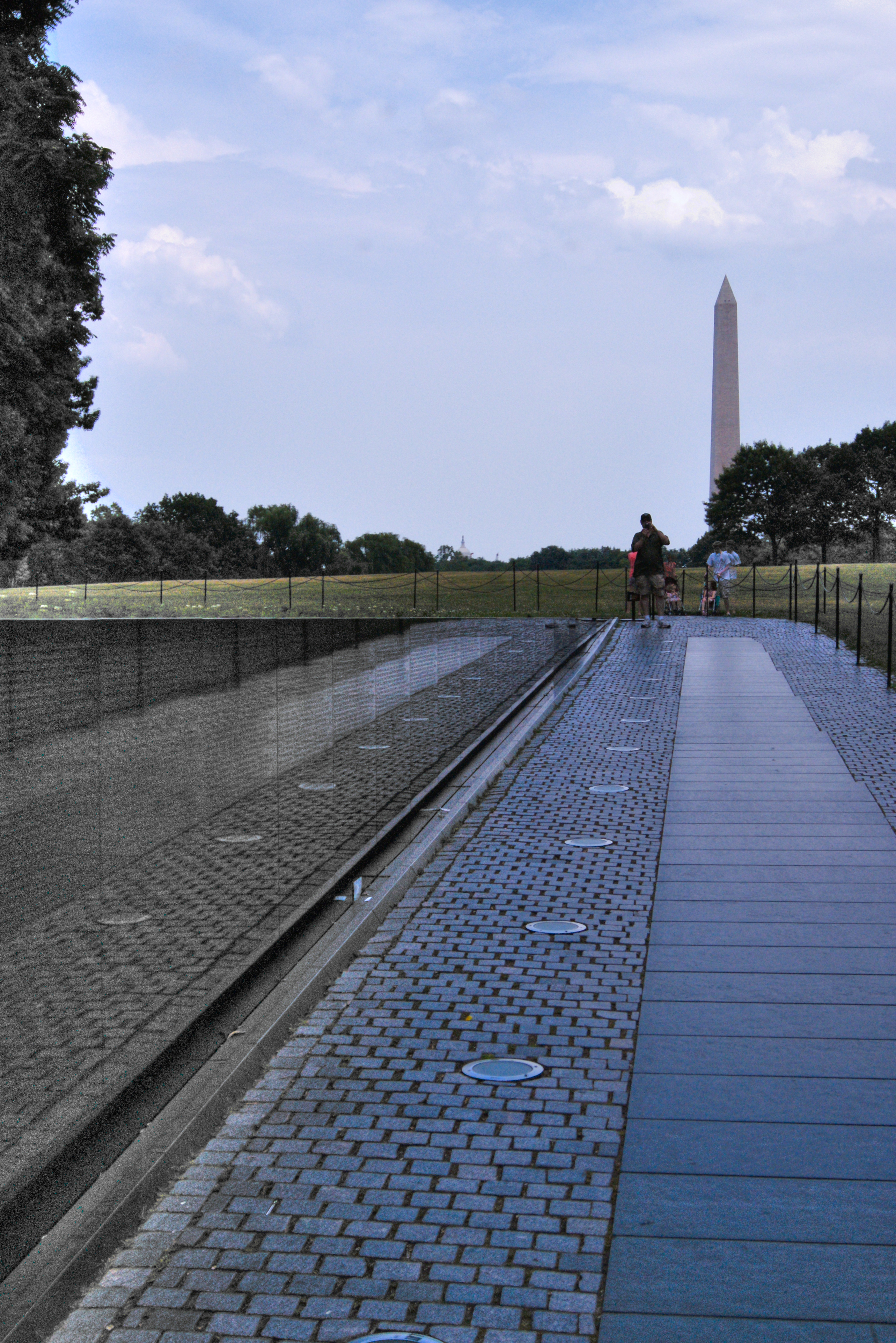 Vietnam Veterans Memorial